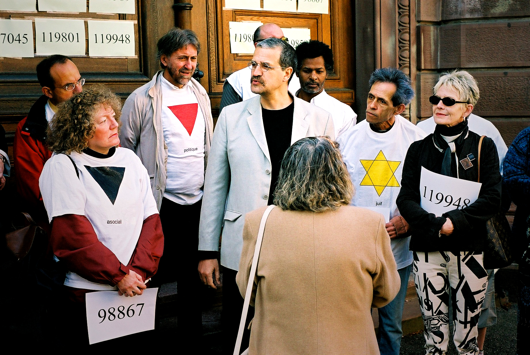 Le Cercle Menachem Taffel, devant l'institut d'anatomie normale à Strasbourg, Septembre 2004.